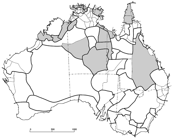 Australian Language Groups according to R. M. W. Dixon (2002). Grey areas represent well established families according to Dixon. Source: R. M. W. Dixon Australian Languages: Their Nature and Development, 2002.